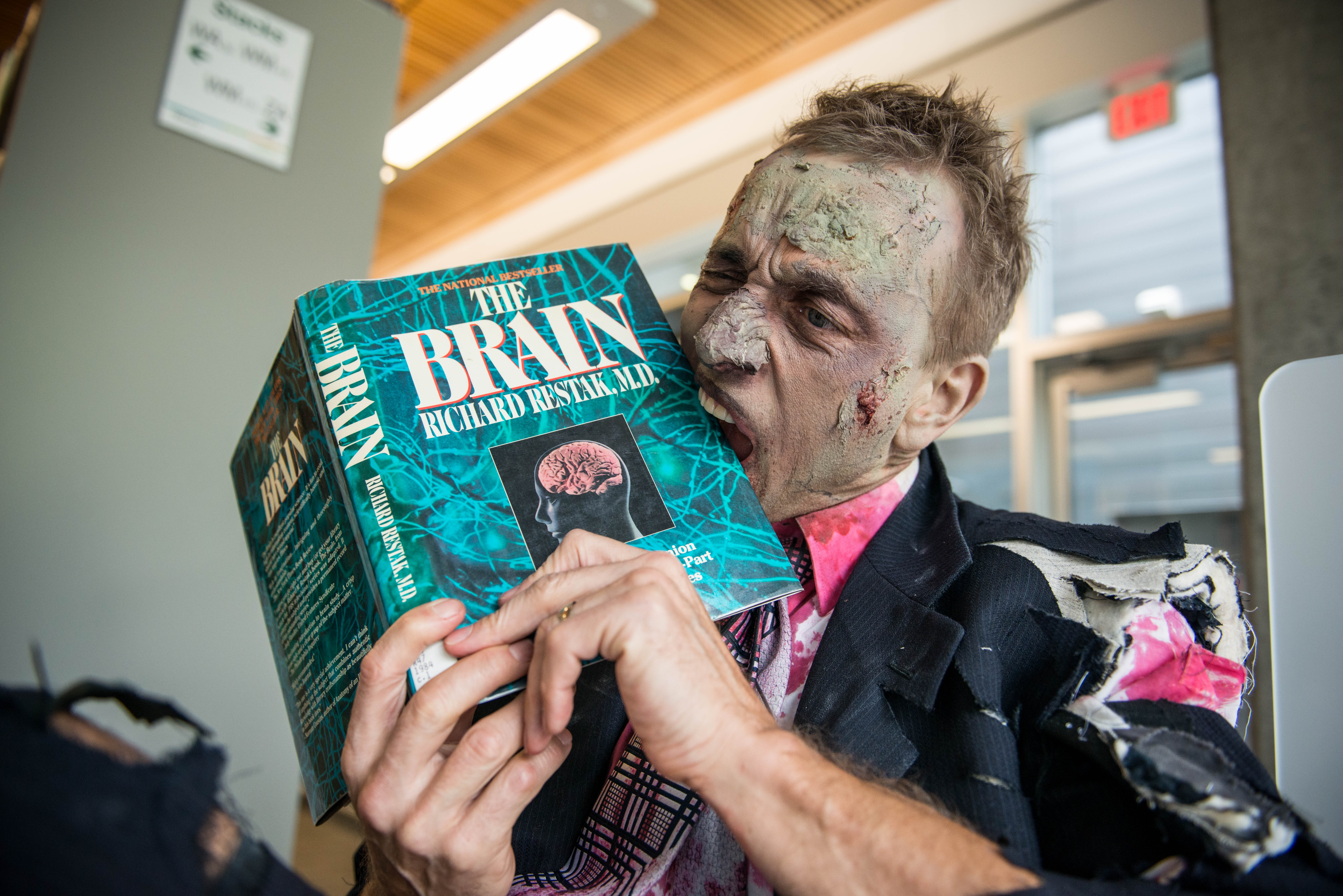 Dave "Need Brains" Pinton